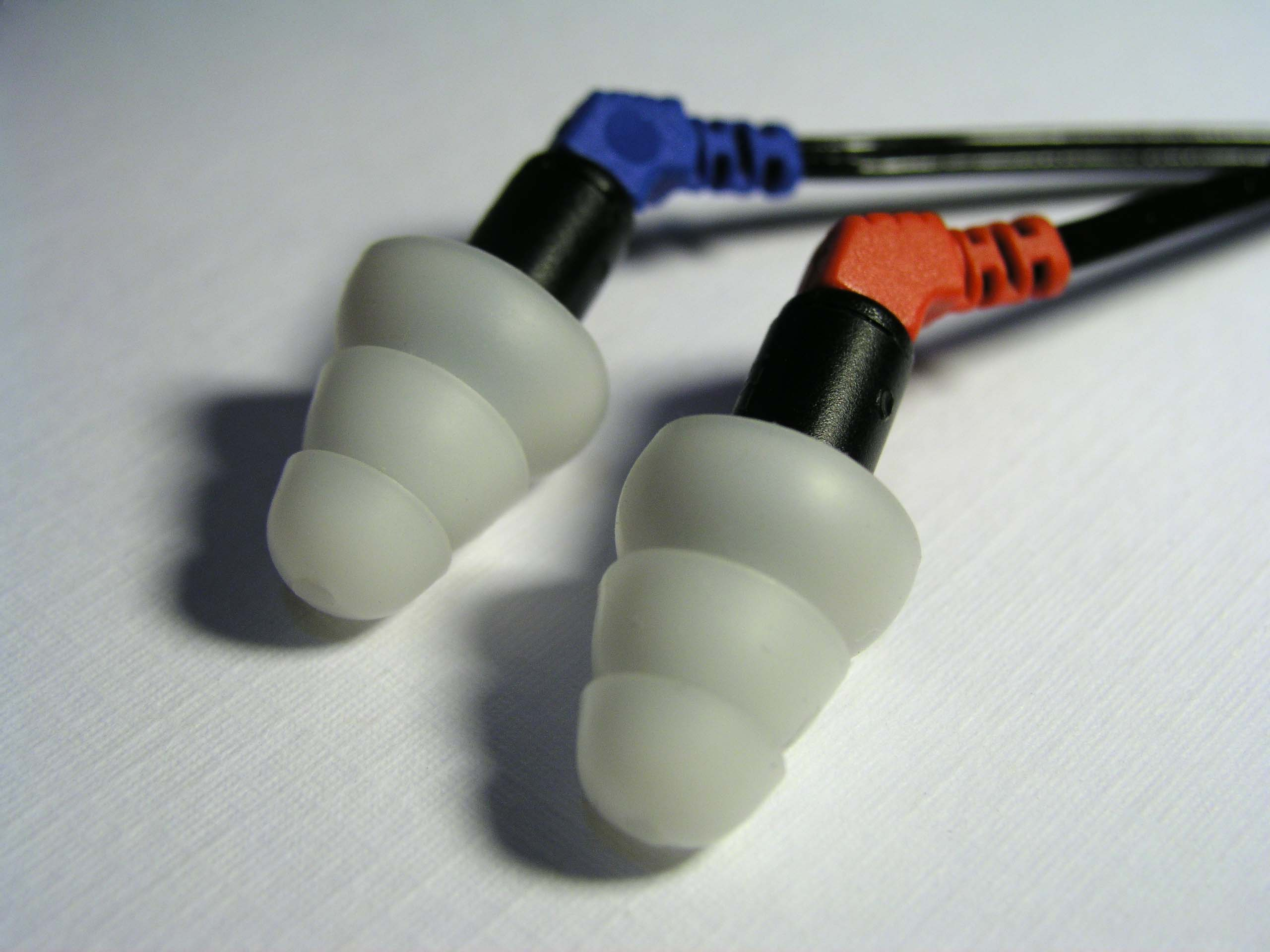 A picture of in-ear monitors, also known as canalphones. This particular model is the Etymotic ER-4S.